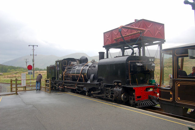 Water tank at Rhyd Ddu station with train Welsh Highland railway Rhyd Ddu station. Garratt engine no 143 waiting to leave for Caernarfon.